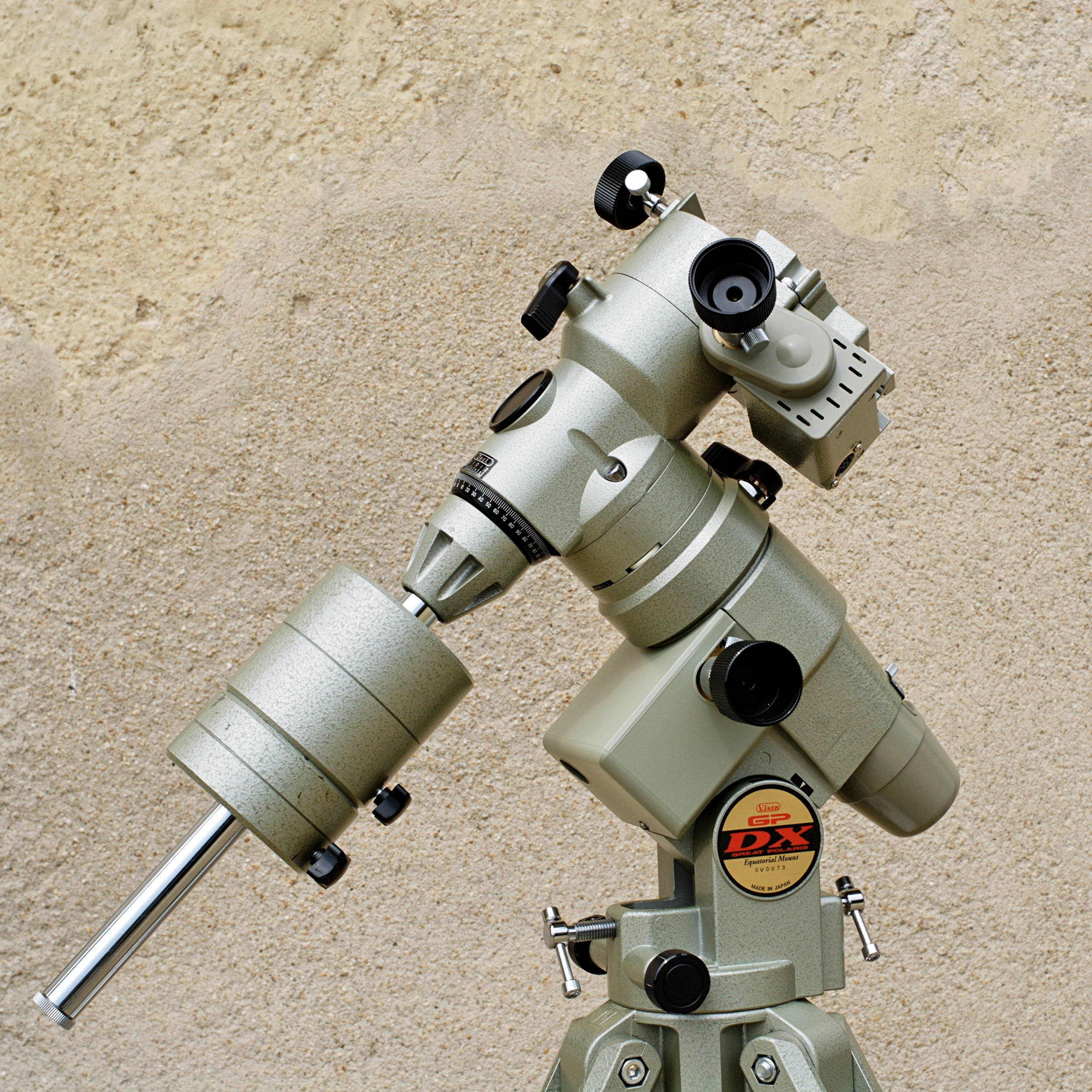 A Vixen GP-DX equatorial mount used on a field tripod.